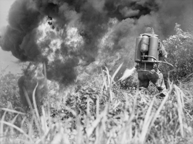 Australian infantryman from the 2/8th Infantry Battalion using a flamethrower against a Japanese position in Wewak, during World War II, May 1945